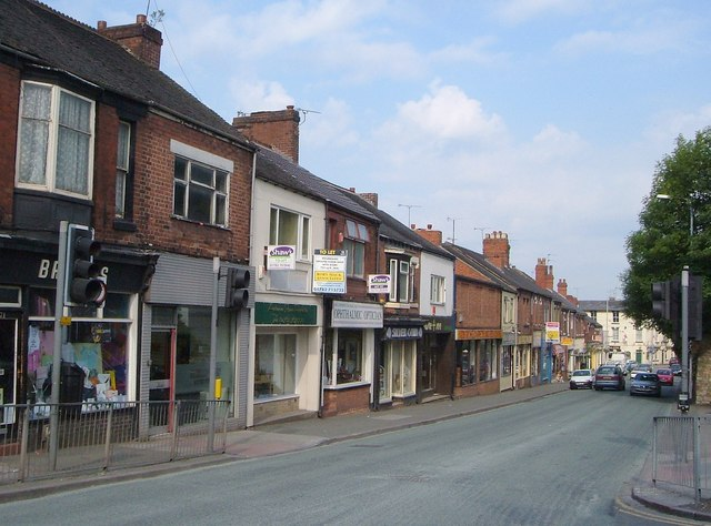 Liverpool Road, Kidsgrove, near to Kidsgrove, Staffordshire, Great Britain. A number of "to let" signs along one of Kidsgrove's main shopping streets, the A50, seen from the junction with Heathcote Street.